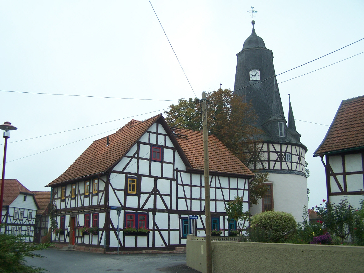 The church in Gerstungen-Untersuhl.